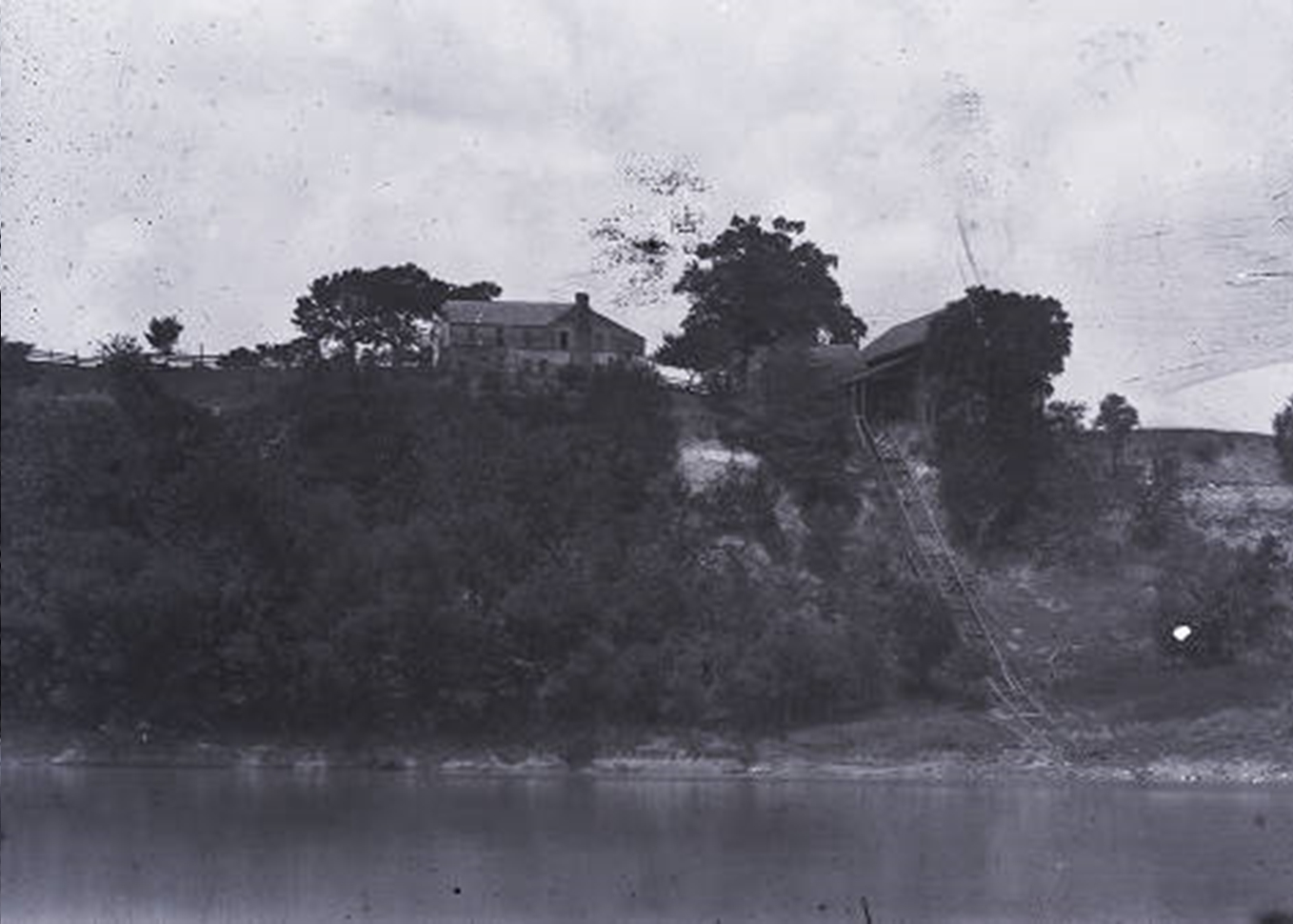 The landing and cotton slide at Prairie Bluff, Alabama.